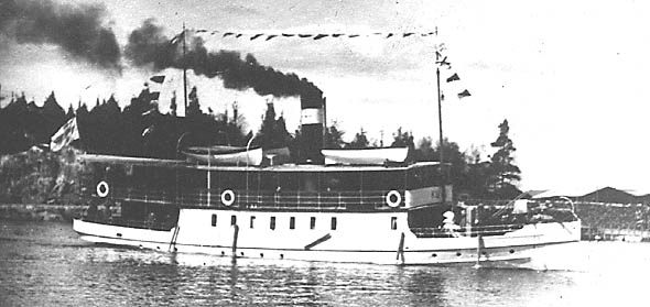 Steamship Kuru on lake Näsijärvi, Finland. The ship was used as a gunboat by the Imperial Russian Navy in its Näsijärvi squadron in WWI